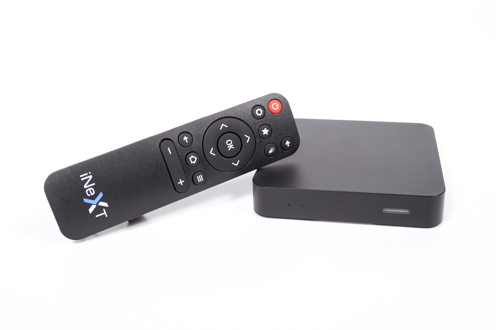 set-top box inext 4k